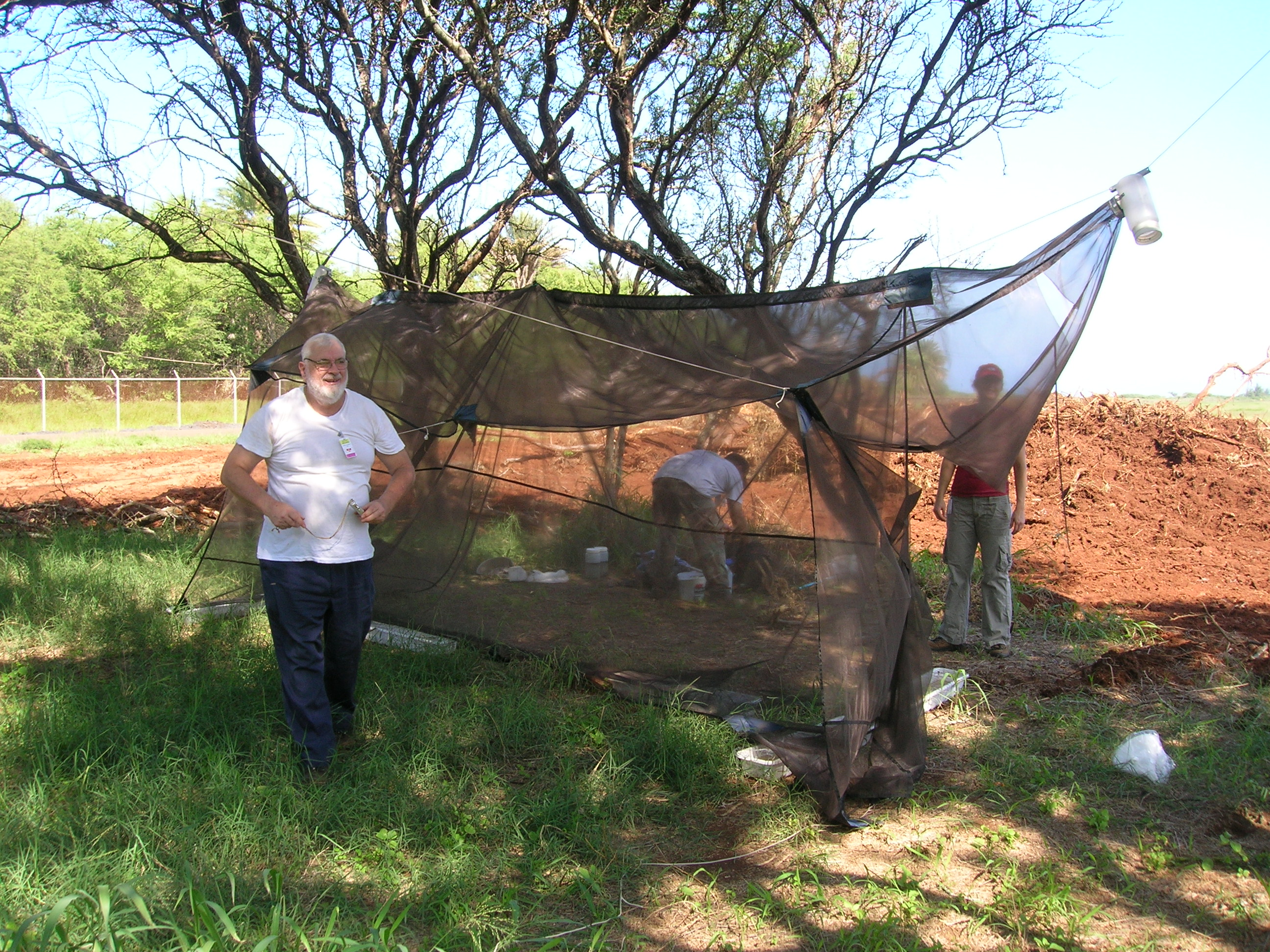 Chenopodium oahuense (habitat with Frank Dave and Heather taking down malaise). Location: Maui, Kahului Airport